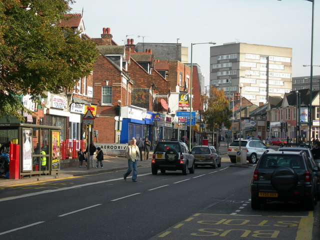 High Road, Wembley Near Ranelagh Road, looking towards shopping area.